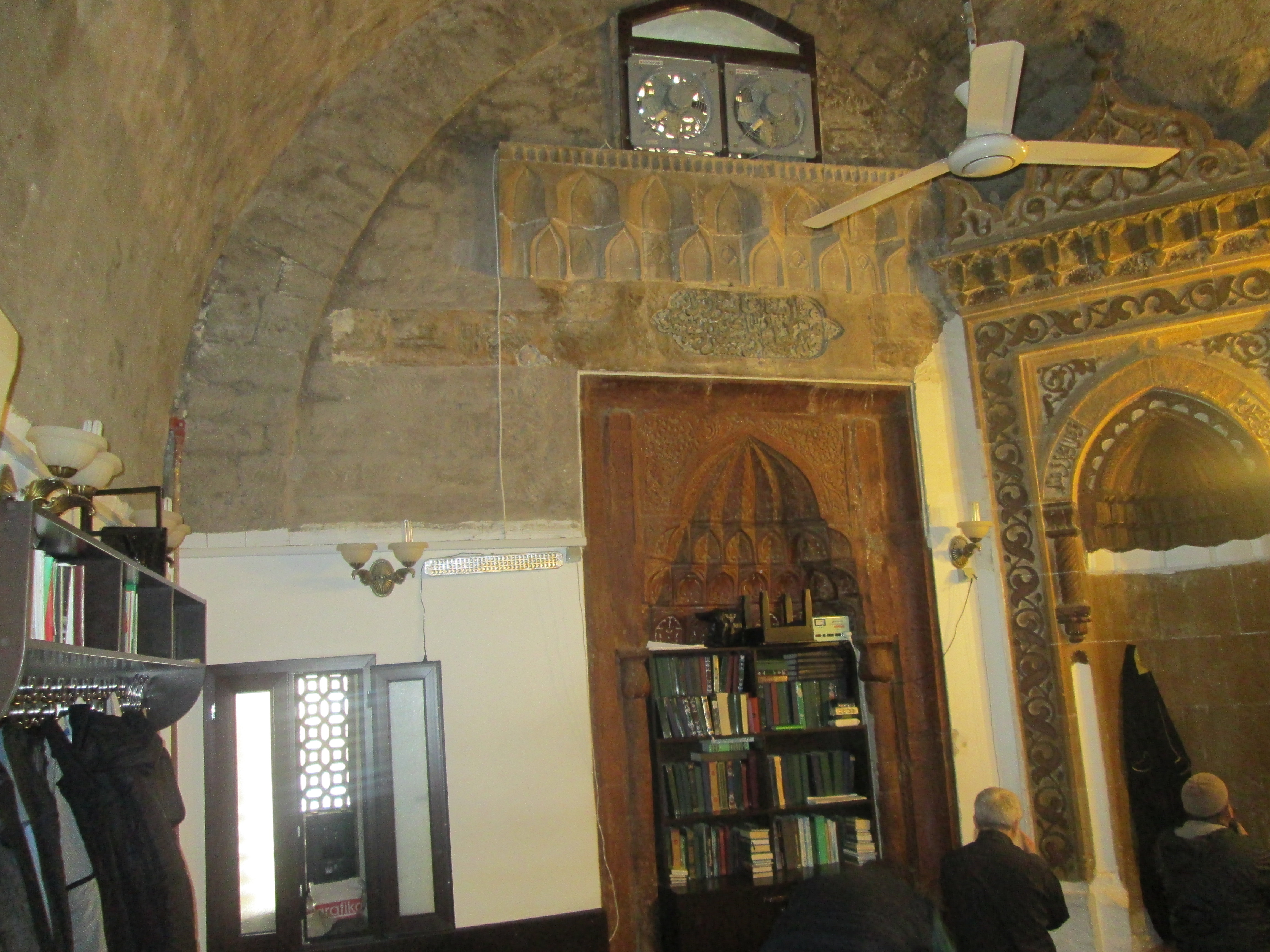 View of the interior of the Ashur Mosque in Baku, Azerbaijan